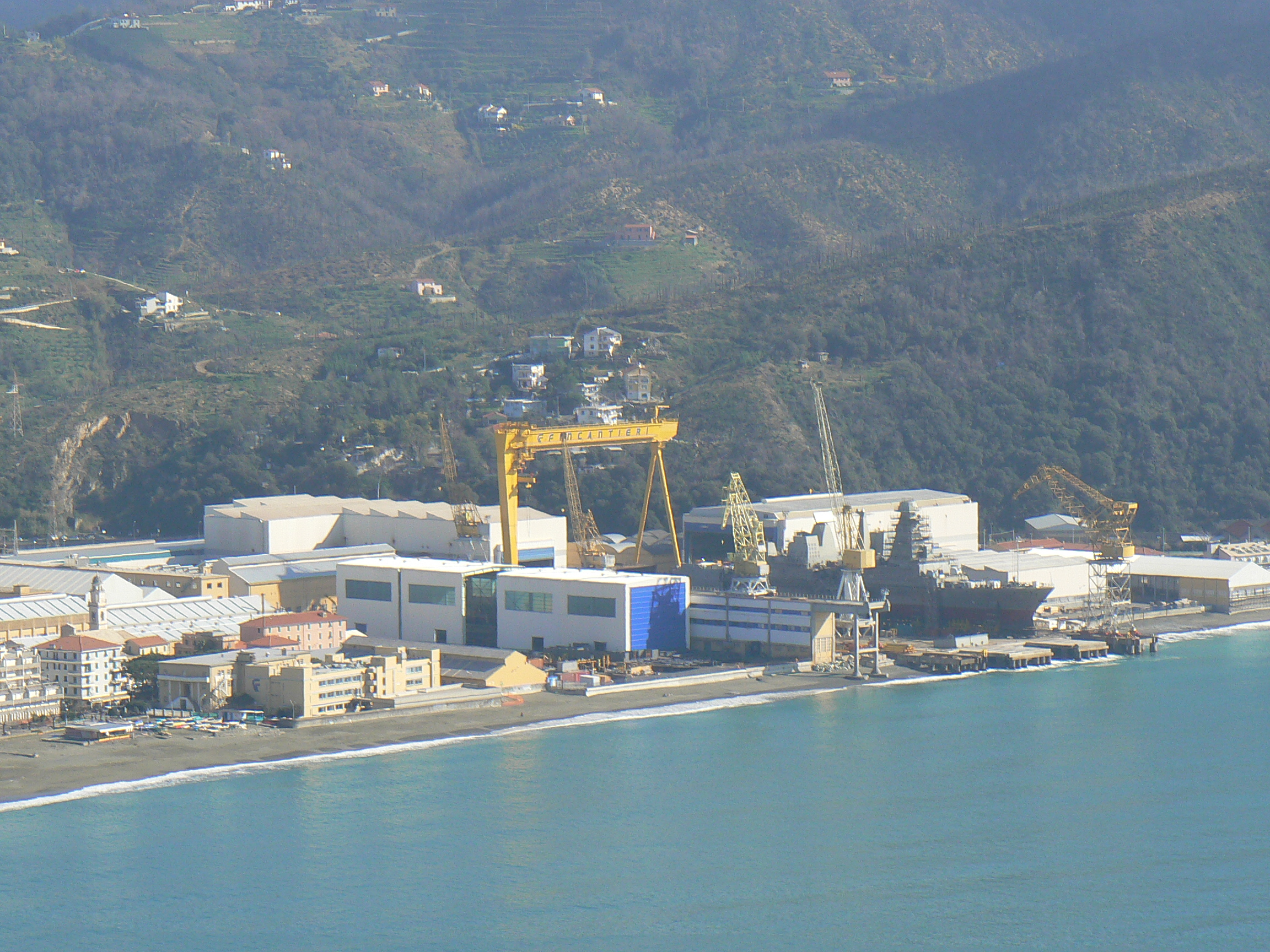 The shipyards of Riva Trigoso seen from Punta Manara. In the docks the Doria-class destroyer Caio Duilio nears completion, and will be launched on 23 October 2007